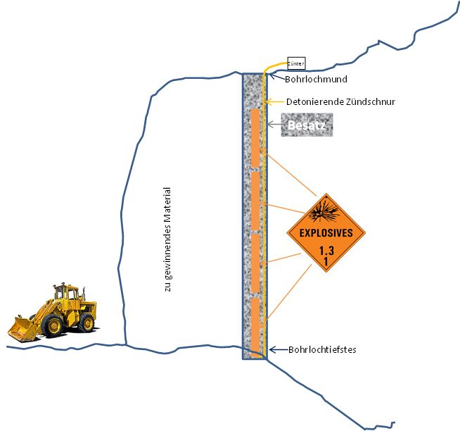 Sketch on the use of explosives, detonating fuse and plugging in the mining-technology in a Quarry. Schematic representation of a charged borehole (not to scale).